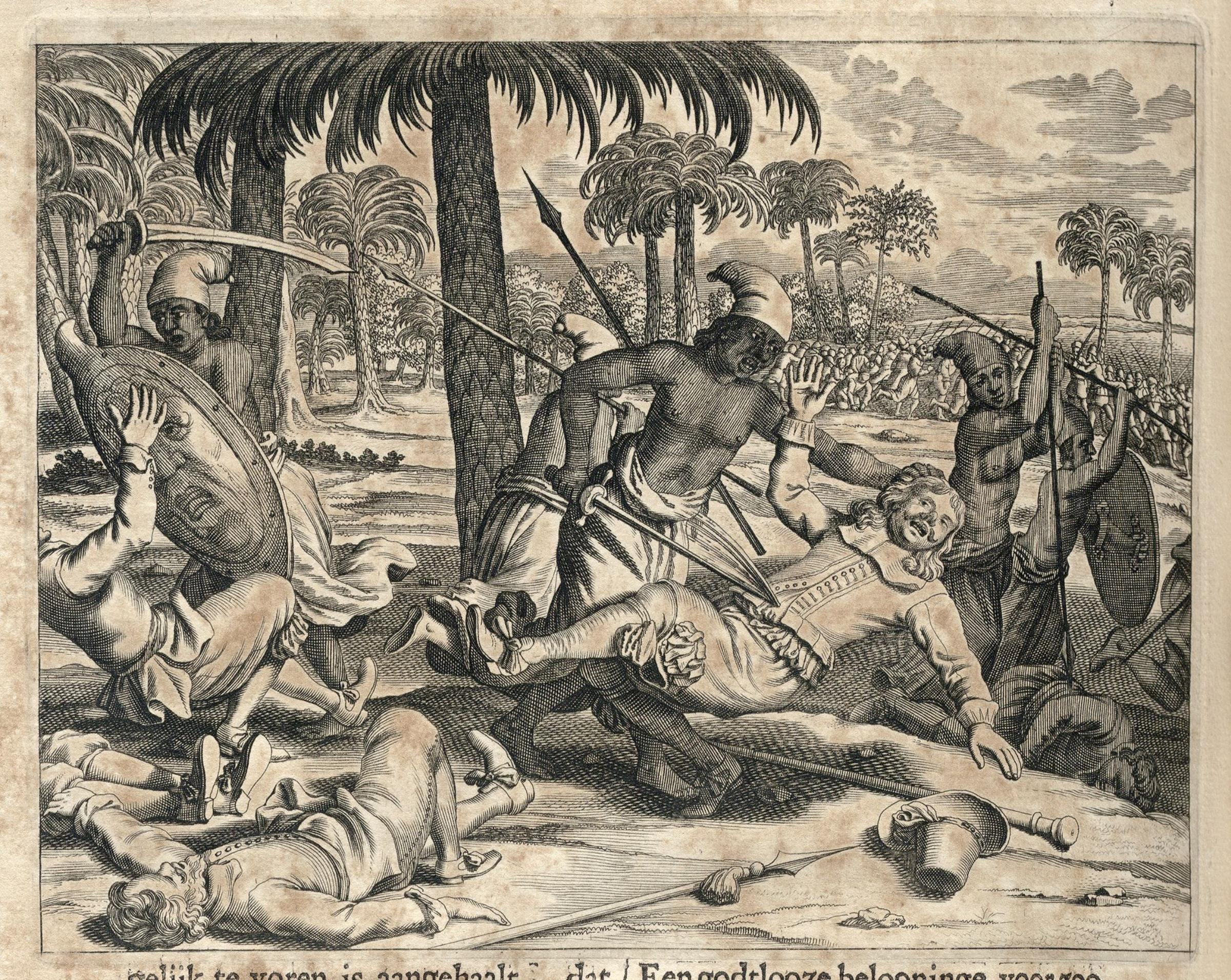 The murder of Willem Jacobsz. Coster, 1640. After the capture of Punto Gale from the Portuguese in 1640 Coster moved to the court of the ruler of Ceylon, Rajasingha II. When his requests weren't met, he became impatient and rude. Coster began to threaten the courtiers and was forced to return to Baticaloa without a Ceylonese escort. On the way he and his four Dutch companions were murdered.